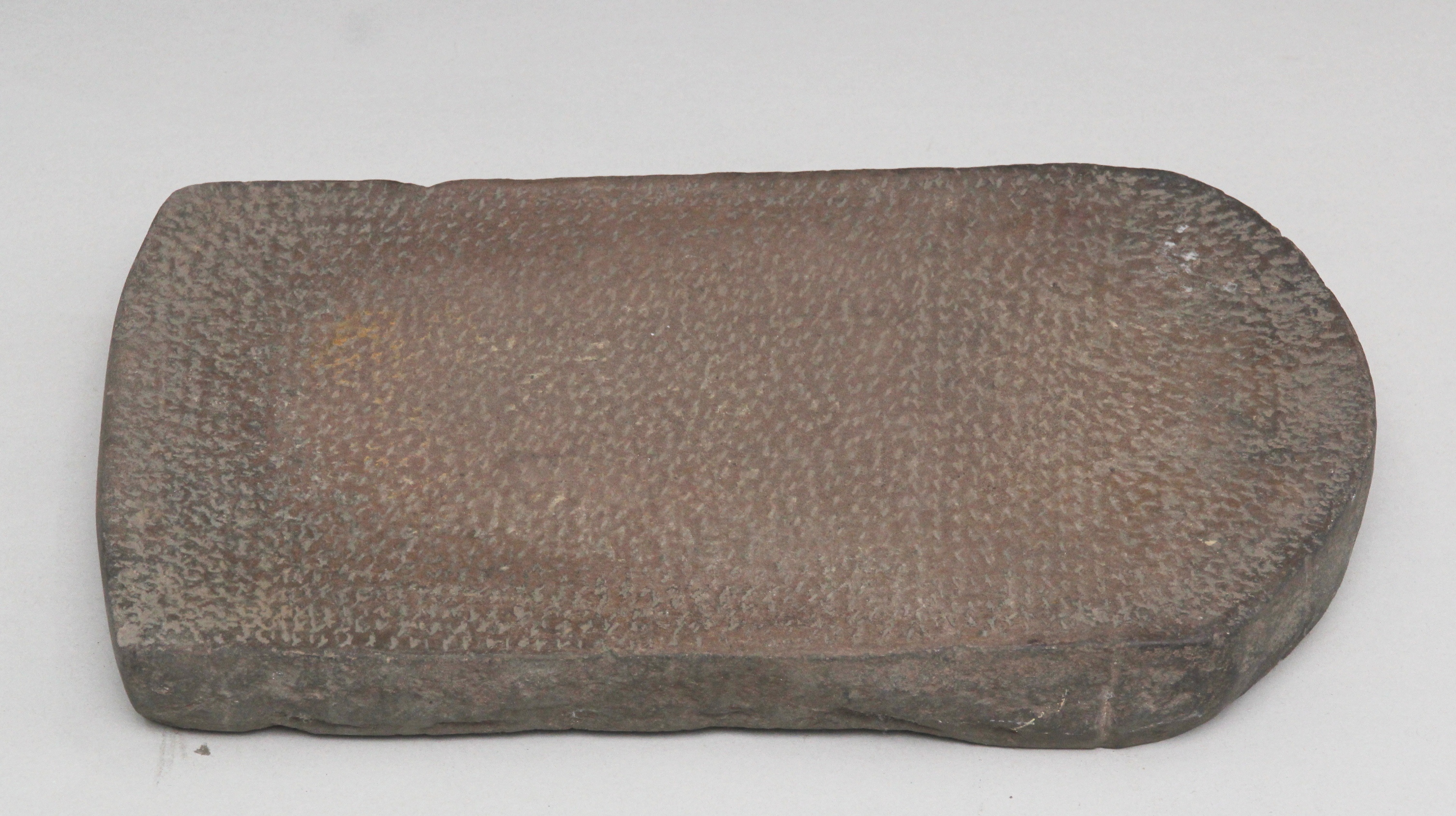 The base part of two pieces of stones used to crush spices at home in Bangladesh and other south Indian countries.